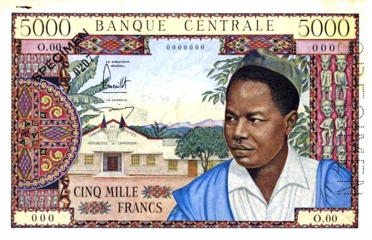 Cameroun, Banque Centrale, specimen 5000 francs, ND (1961)